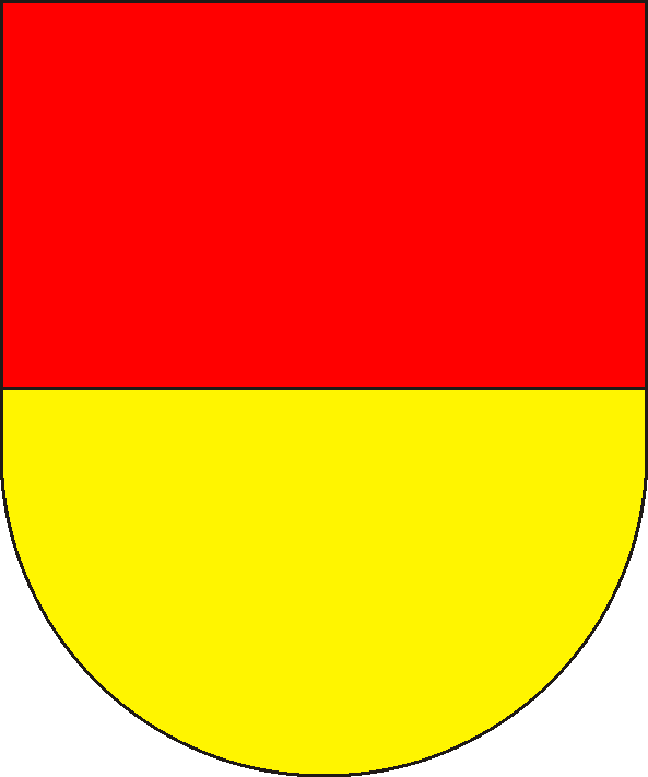 coat of arms lordship of Münzenberg